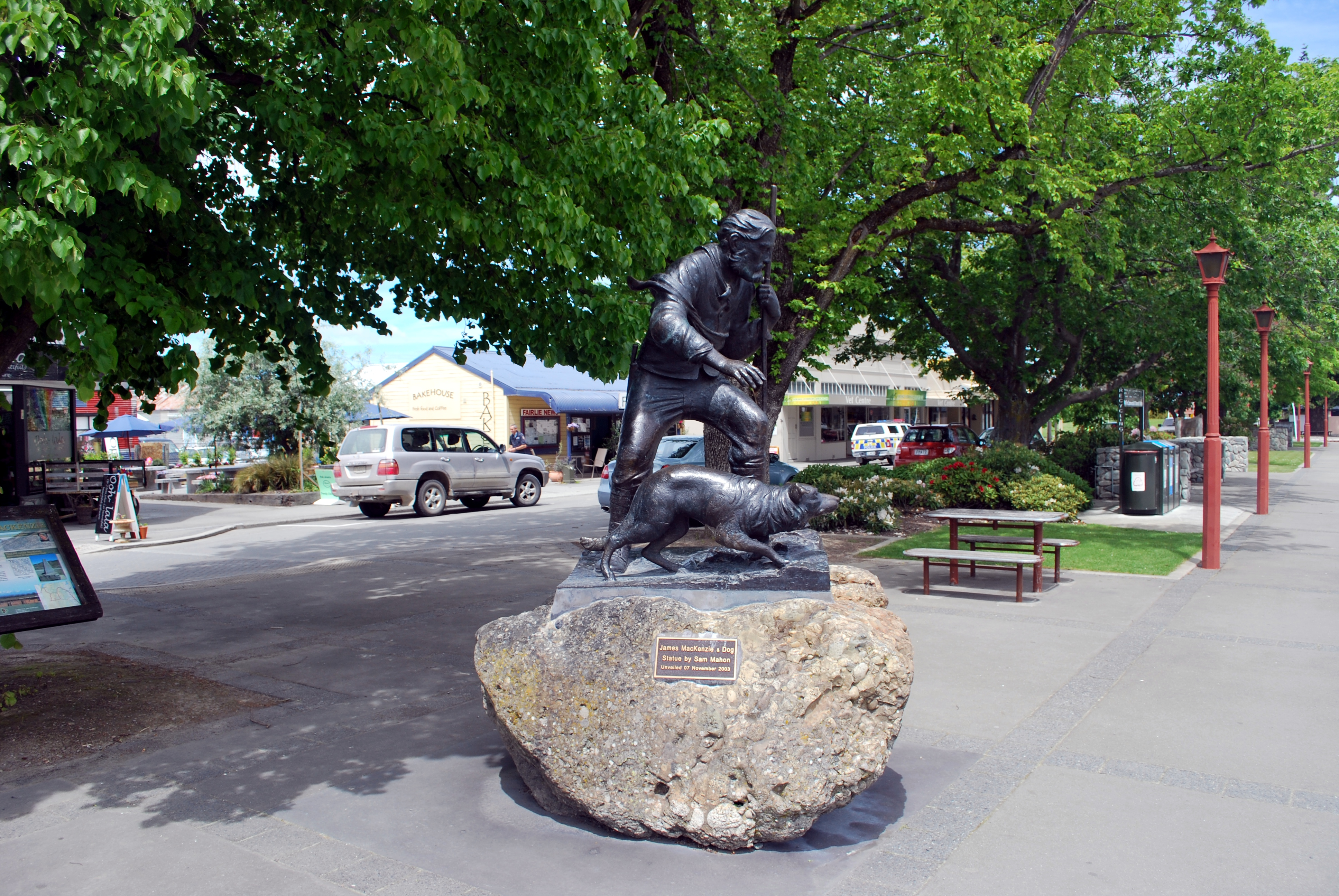 Statue of James Mckenzie (outlaw) and his dog at Fairlie, New Zealand